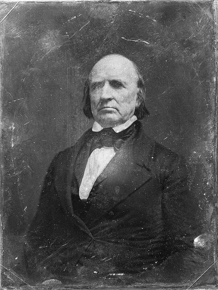 Ezra B. French, Republican Congressman from Maine 1859-61, Second Auditor of the U.S. Treasury 1861-80